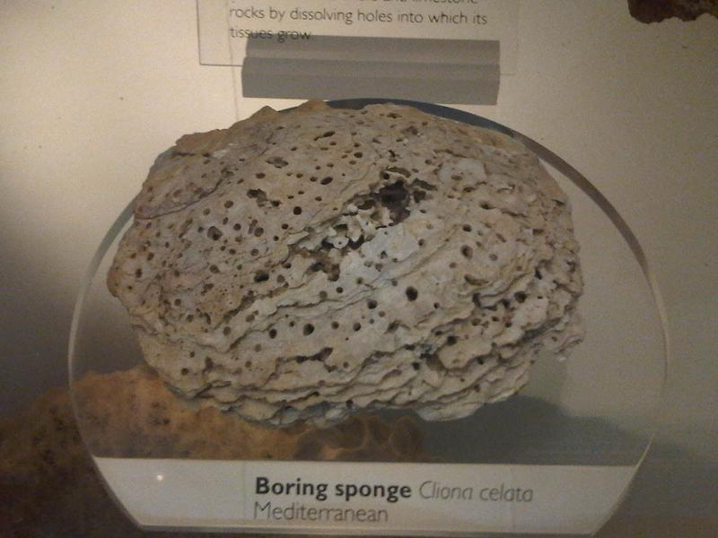 Cliona celata (Sponge - Porifera) at the Natural History Museum in London, England.